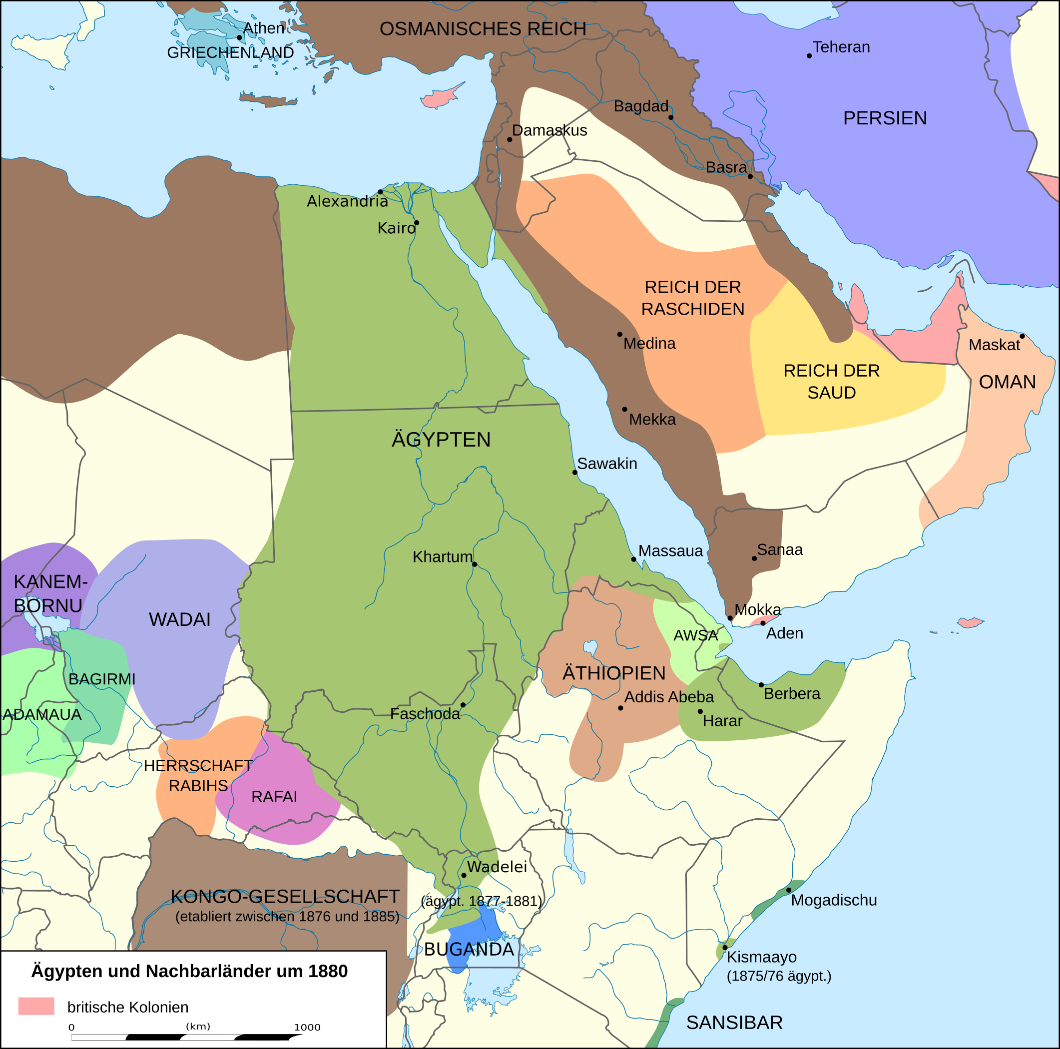 Map of Egypt and its neighbors 1880 in German.